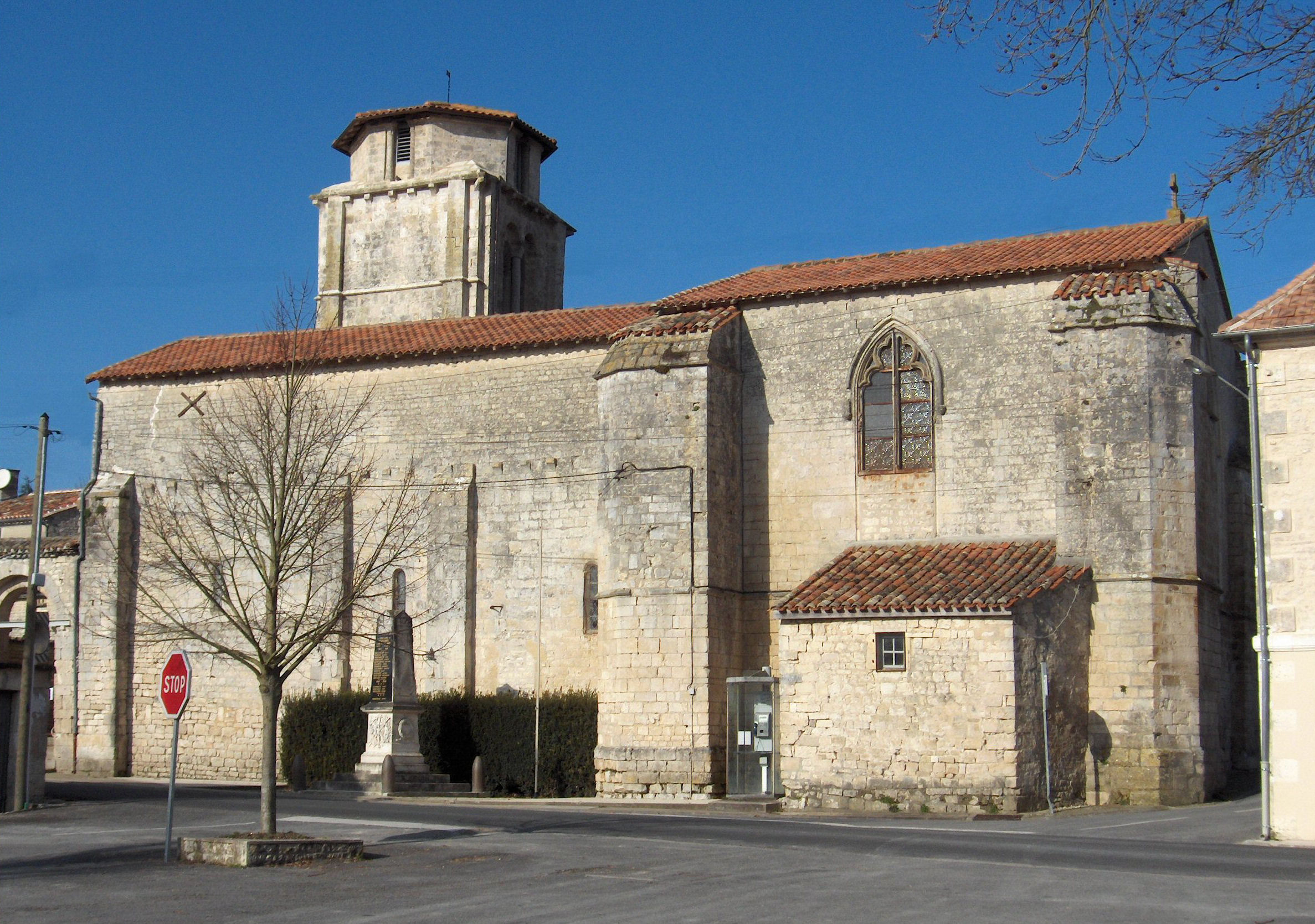 Church of Vouharte, viewed from South - Charente - France - Europa